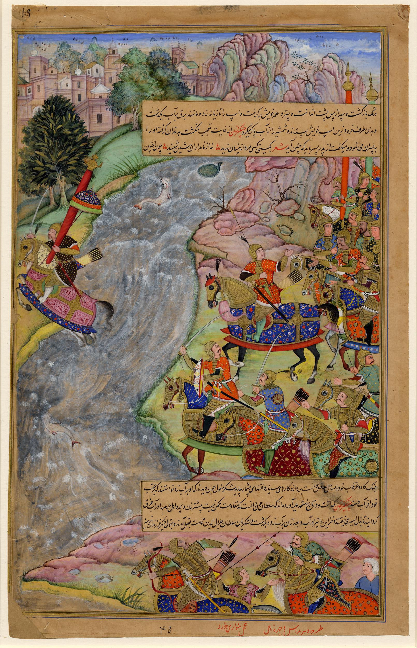 This painting, from the epic Chinggiskhannama, illustrates Jalal al-Din Khwarazm-Shah crossing the rapid Indus river, escaping Chinggis Khan and his army. The river, alive with jumping fish, separates Chingis Khan from Jalal al-Din, who carries a parasol, large pole, and sword. In the distance a walled city is seen. Three lines of text appear within two isolated columns. Painted in gouache on paper.